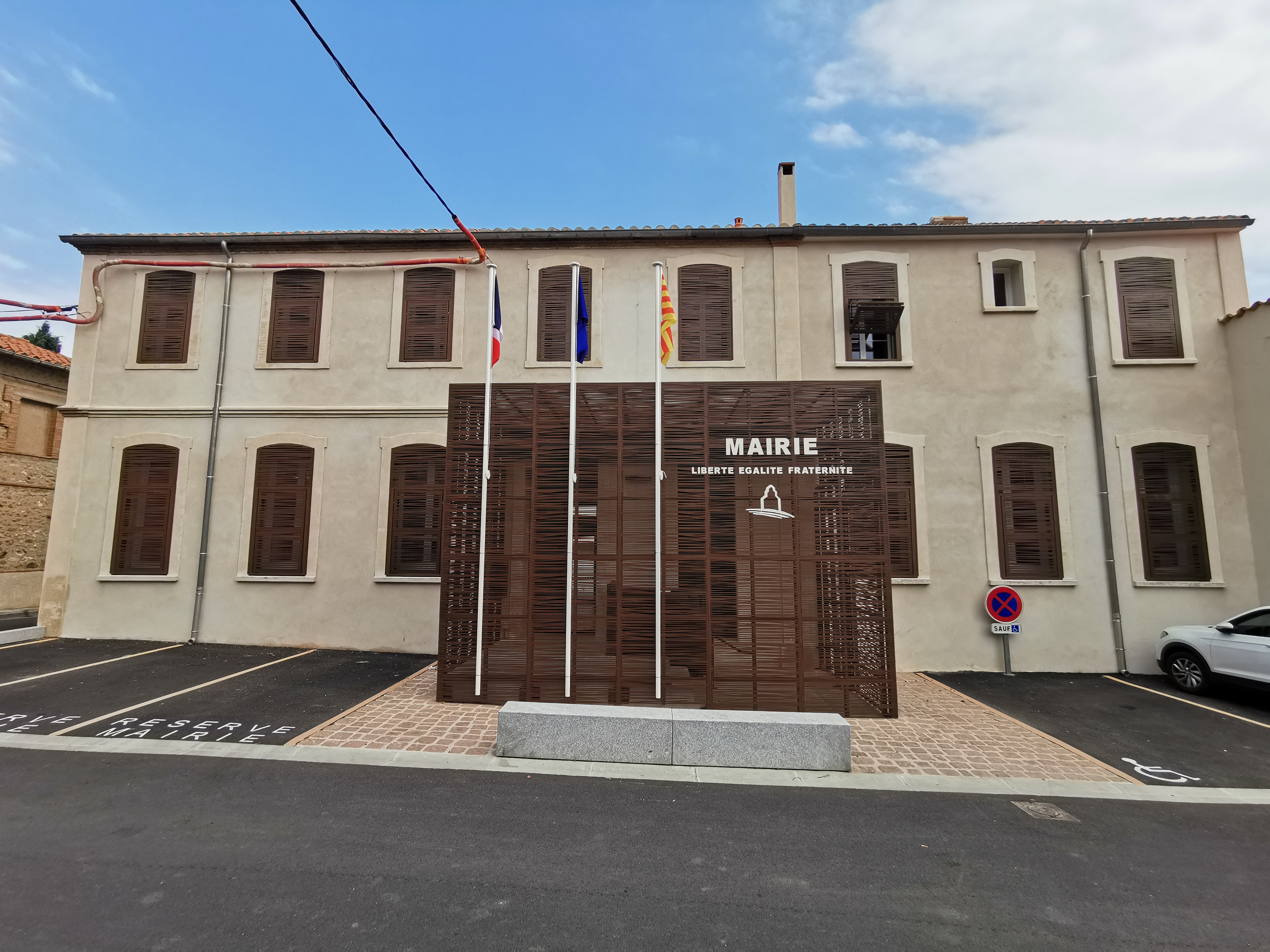 The new town hall building a number 5 rue du Pla del Rey in Tresserre.